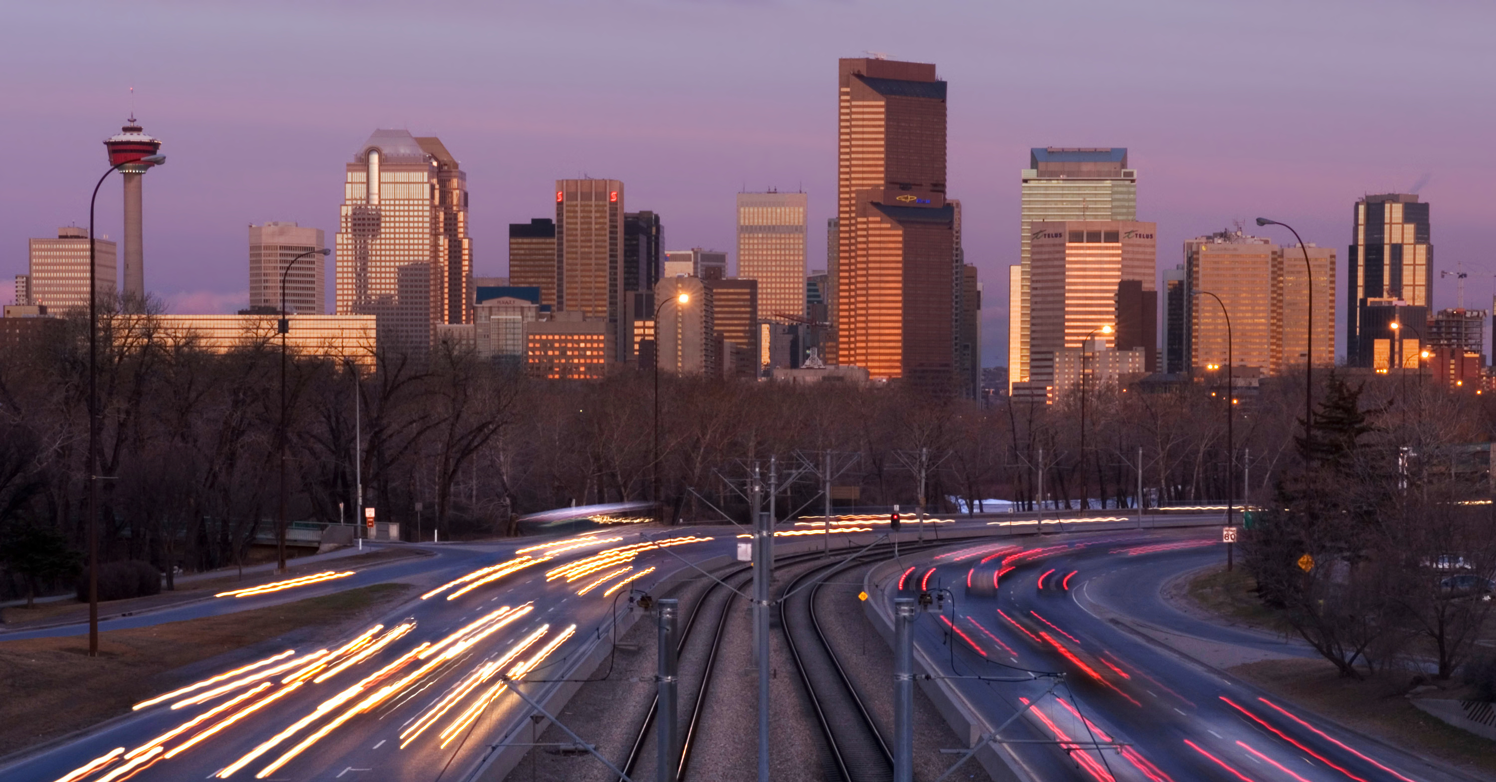 Memorial Drive, Calgary Alberta, looking west from the Zoo Road bridge. Photo by Chuck Szmurlo taken April 13, 2007 with a Nikon D200 and a Nikon 28-70 f2.8 lens.